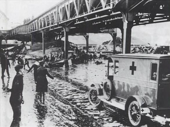 Aftermath of the Boston Molasses Disaster in 1919